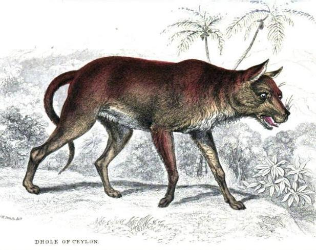 A dhole of Ceylon